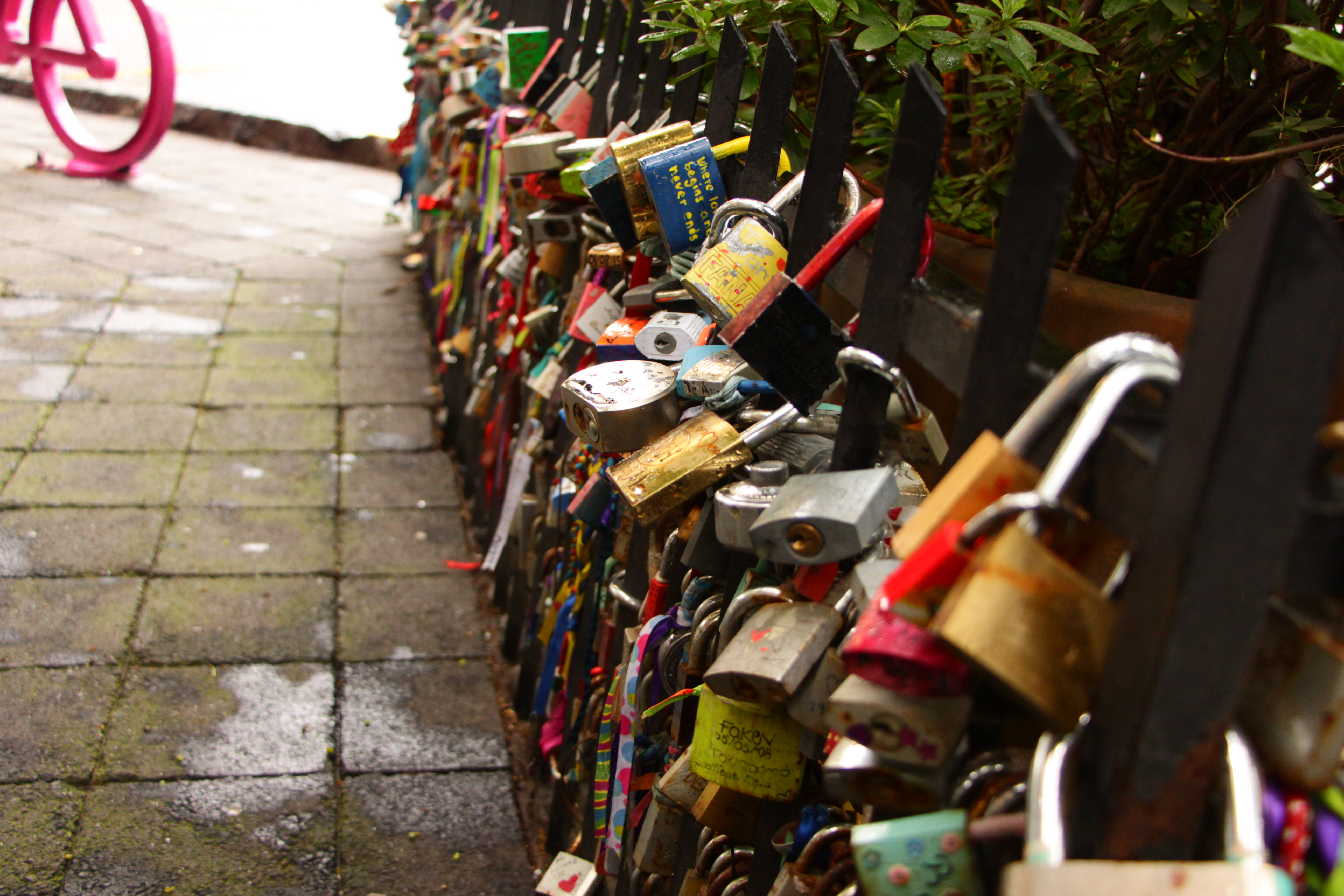 Love locks on a smithy fence in front of the MODO museum at Colonia Condesa.